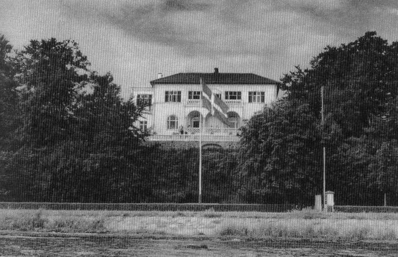 Villa Mikkelborg, now replaced by Mikkelborg Park, in Mikkelborg, Hørsholm Municipality, Denmark